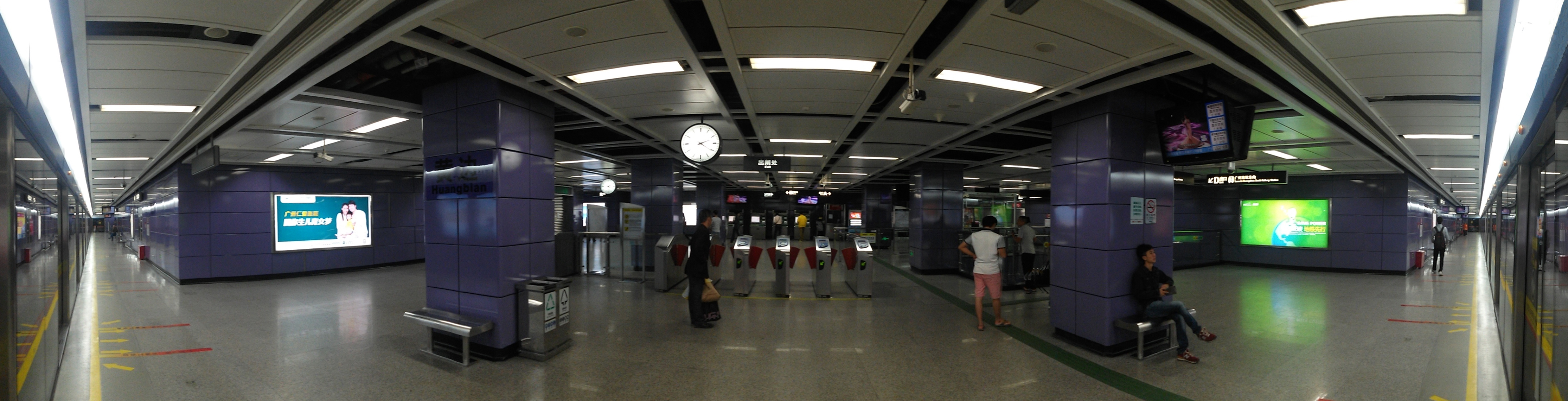 FULL SIGHT of Platform for Huangbian Station (Towards Jiahe Wanggang) in Guangzhou Metro.